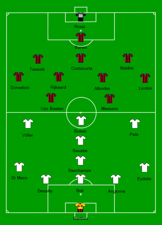 Olympique de Marseille (white) and AC Milan (red/black).